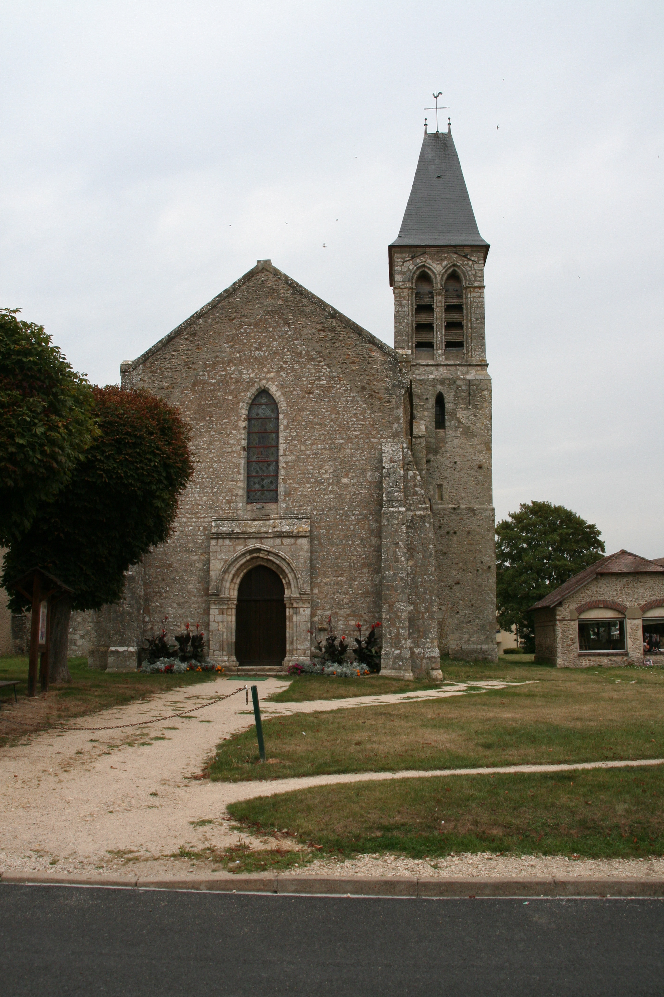 Corbreuse church